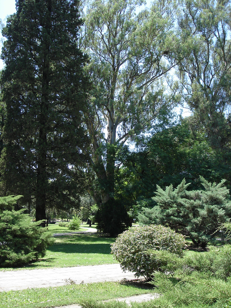 Sarmiento park. Córdoba, Argentina.